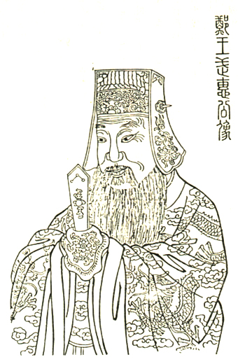 Pan Mei's portrait in an 1887 genealogy book